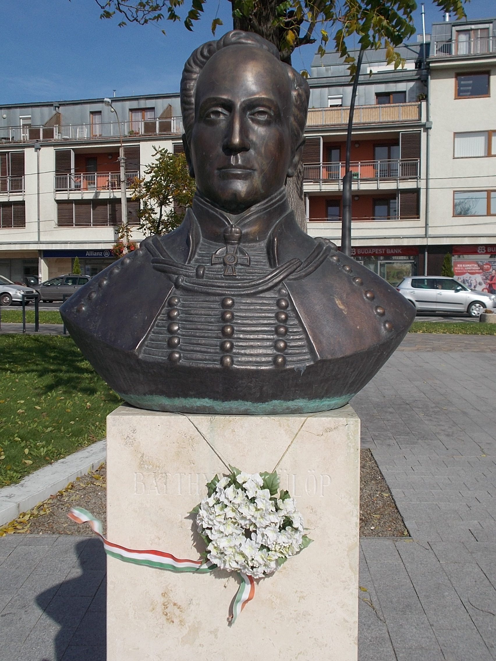 Fülöp Batthyány bronze bust on limestone base. - Alsó street, Fő Sq., Érd, Pest County, Hungary